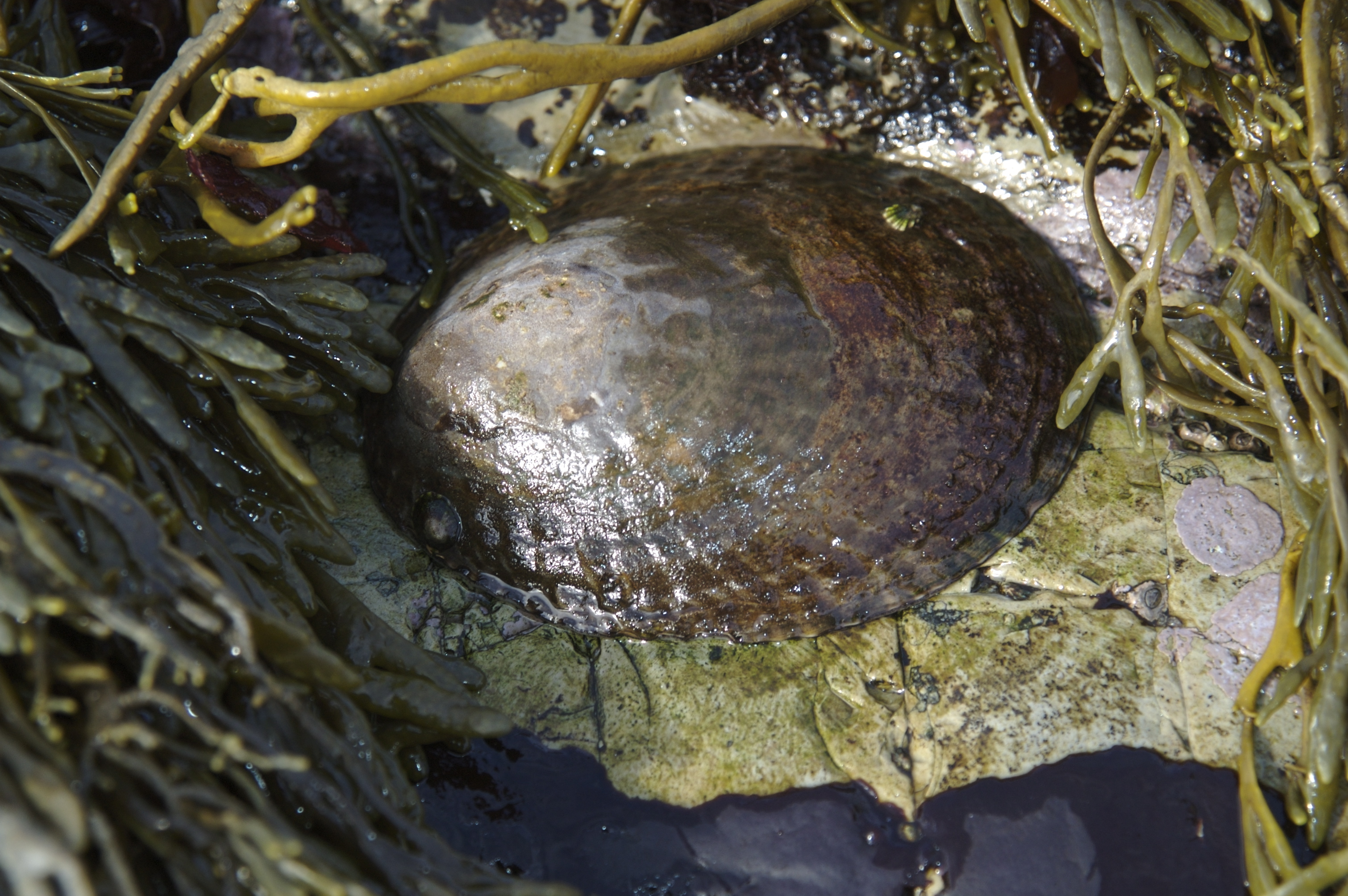 Photo of Lottia gigantea.